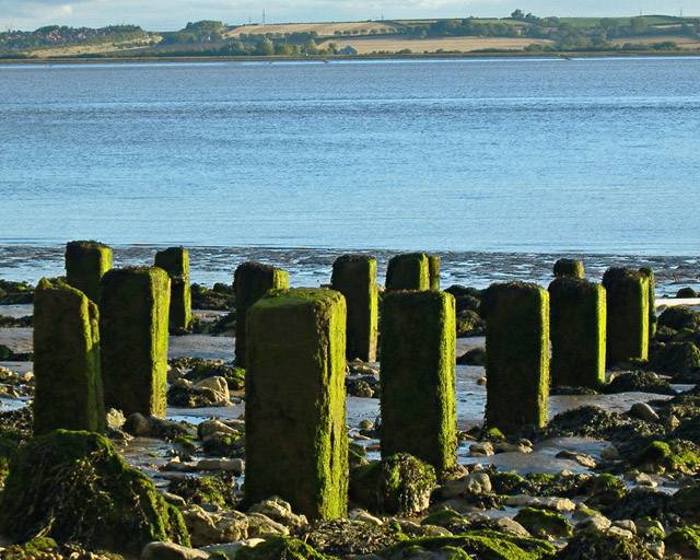 Foreshore posts, at Hessle, East Riding of Yorkshire, England.These are among large numbers of similar posts which dot the Humber Foreshore just west of the Humber Bridge. They would appear to be the remnants of landing stages or jetties which have long since disappeared.